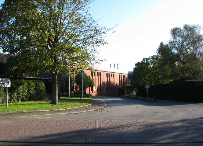 Printing Plant of Clausen&Bosse in the city of Leck, a subsidiary of CPI-Books